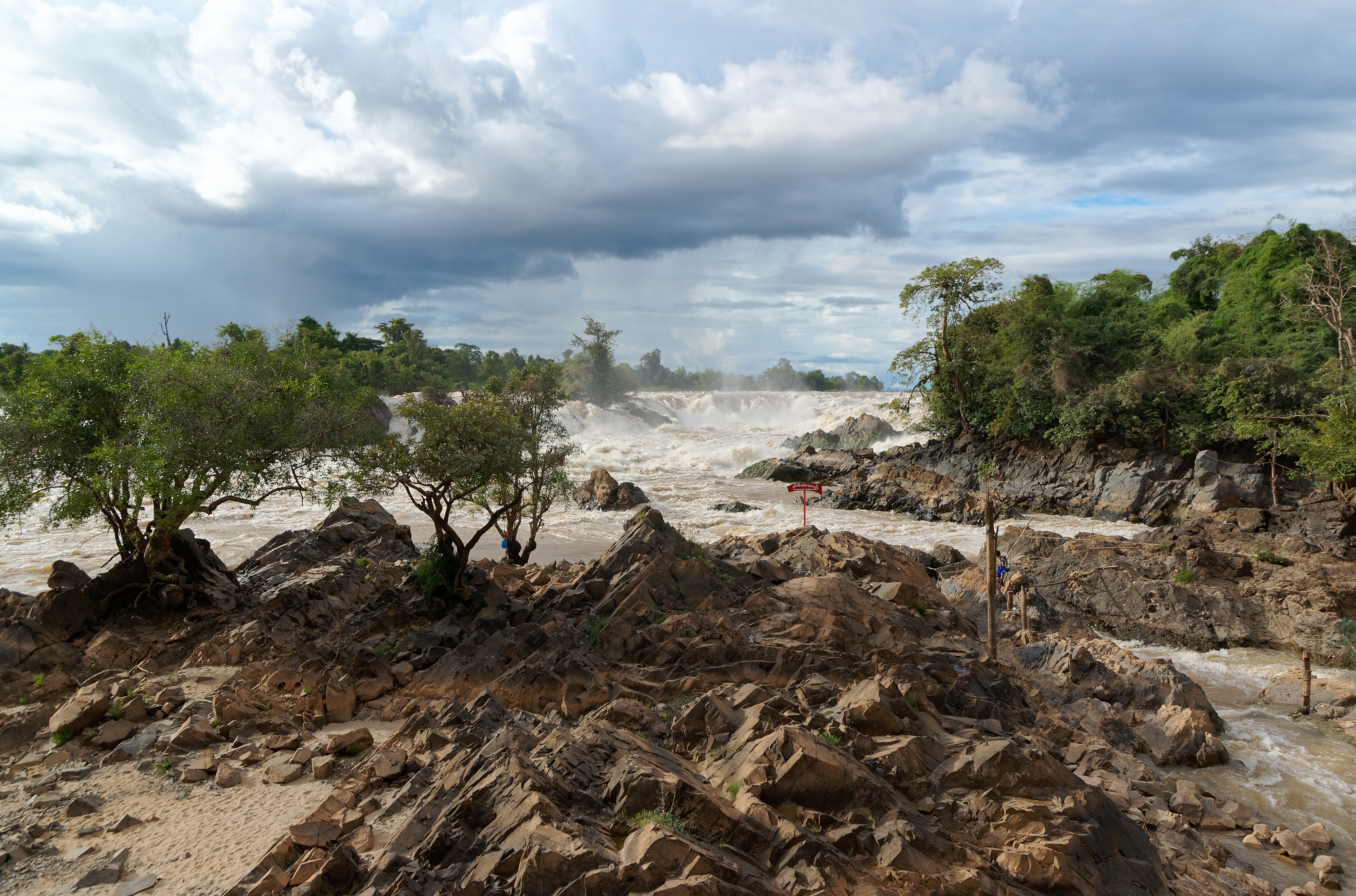 Khone Phapheng Falls in Laos